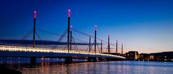 A picture of the Munksjö bridge